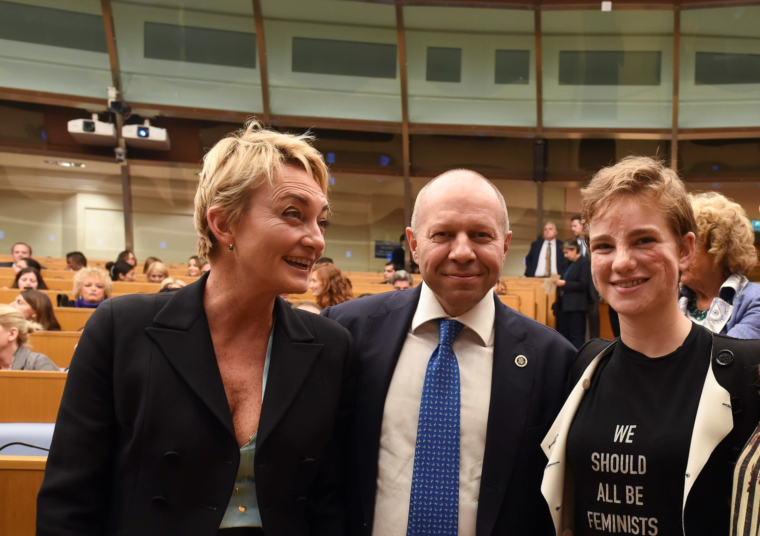 Bebe Vio at the Italian Parliament, with her mother Teresa and Corrado Maria Daclon, 2018